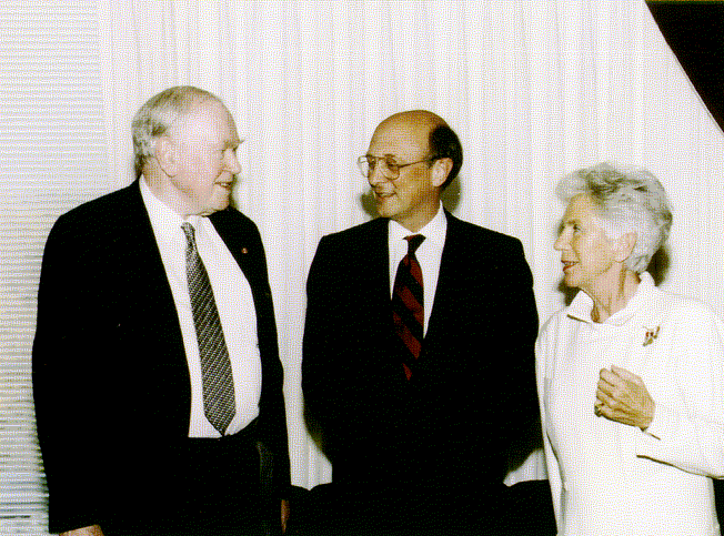 "Father of scientific intelligence" RV Jones, DCI James Woolsey, Jeanne de Clarens (field officer, source of scientific intelligence, captured by Nazis)